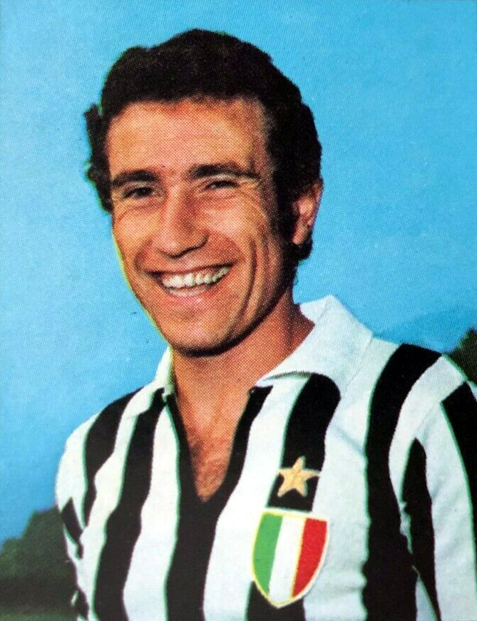 Italian footballer Giuseppe “Oscar” Damiani with Juventus F.C. in the 1975–76 season.